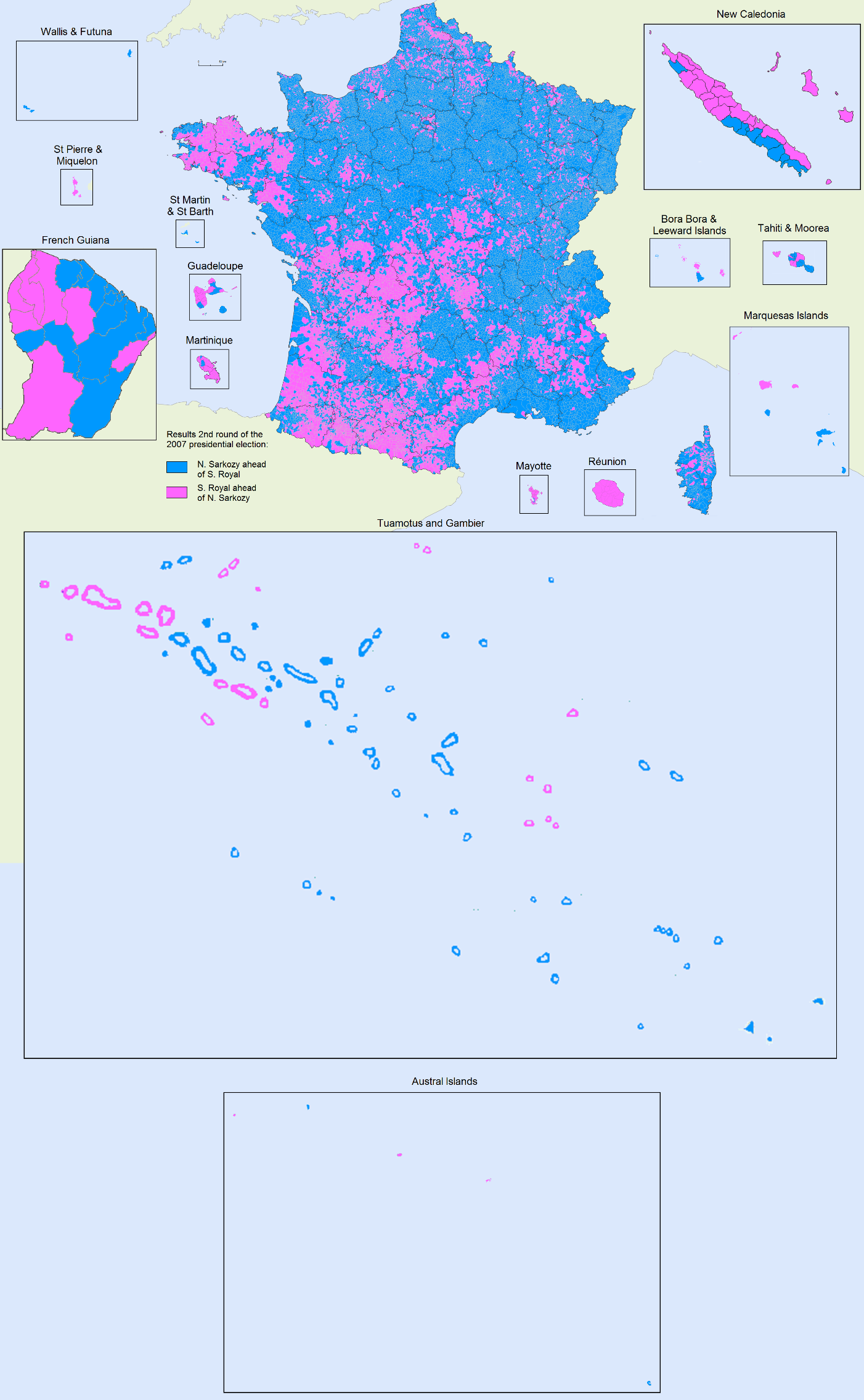 Map showing the results of the 2nd round of the 2007 presidential election (smaller scale).